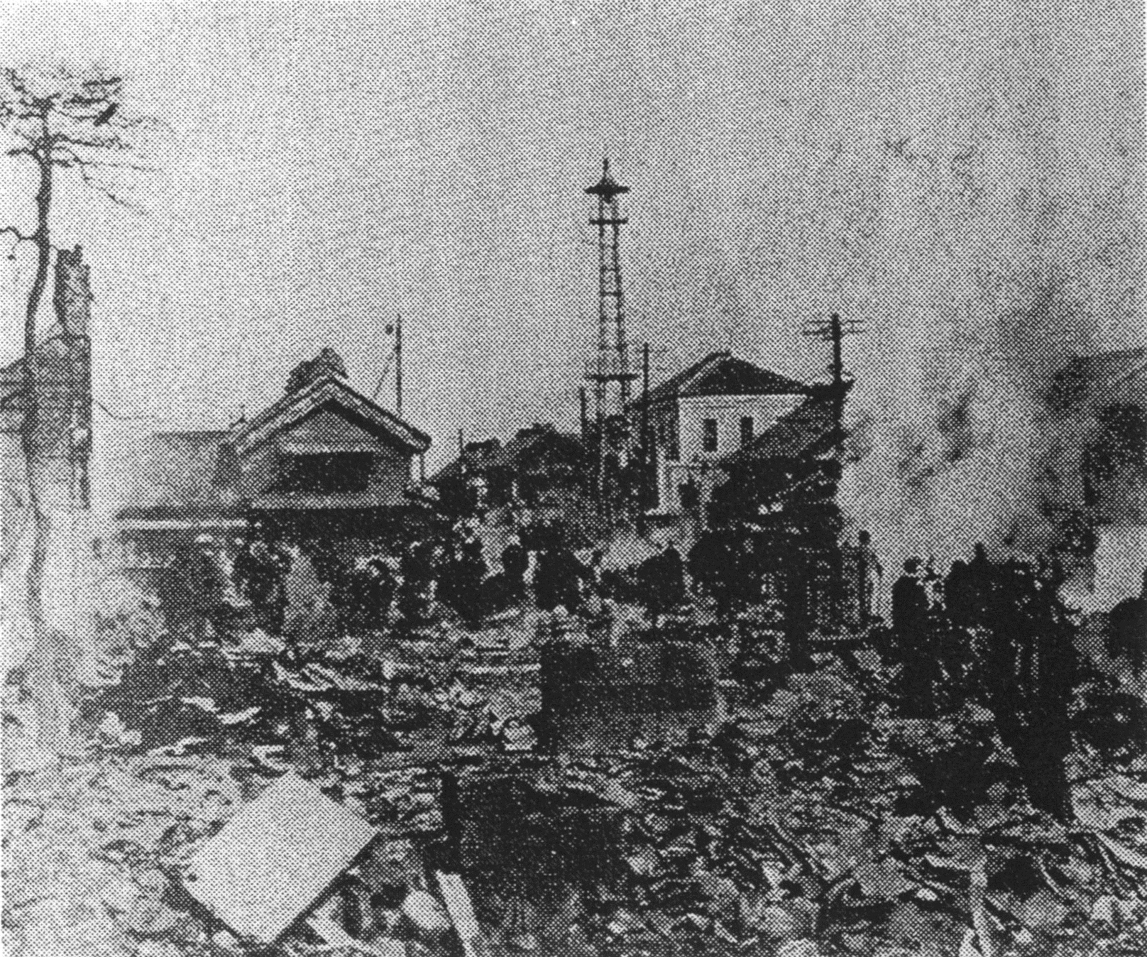 This is the great fire of Ishioka in 1929 at Nakamachi, Ishioka, Ibaraki, Japan.